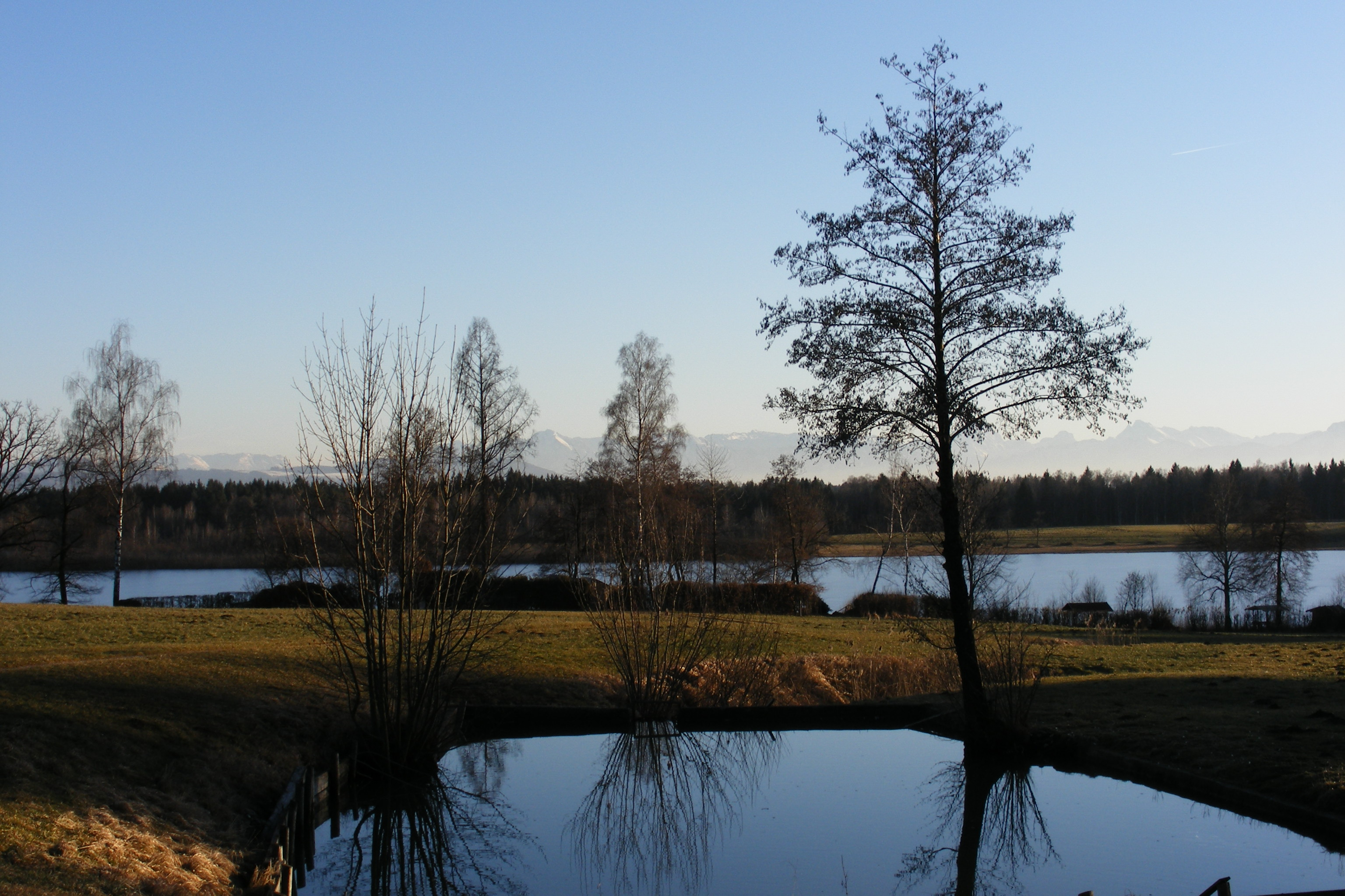 Lake Herating, also called Lake Ibm, municipality of Eggelsberg, state of Upper Austria, Austria.